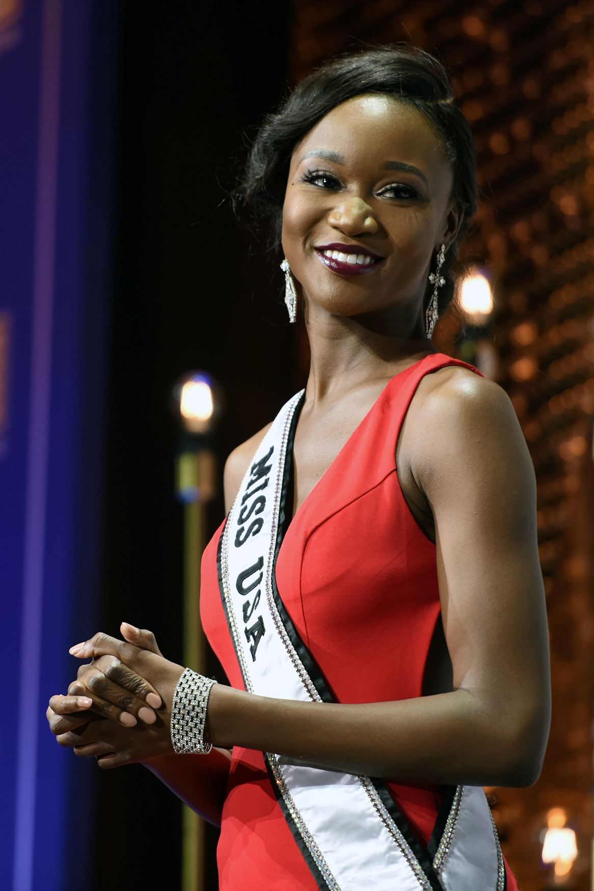 Miss USA 2016, Army Lt. Deshauna Barber at the 2016 USO Gala, Washington, D.C., Oct. 20, 2016. (U.S. Army National Guard photo by Sgt. 1st Class Jim Greenhill)